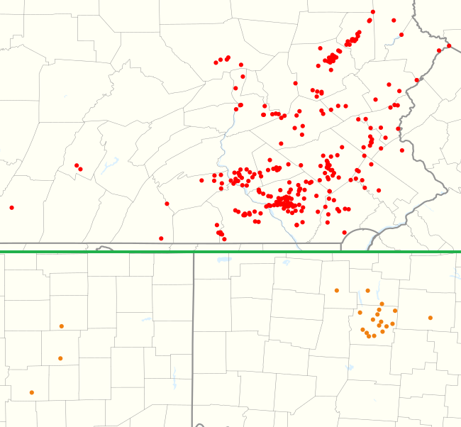 Footprint of Turkey Hill stores within the United States.